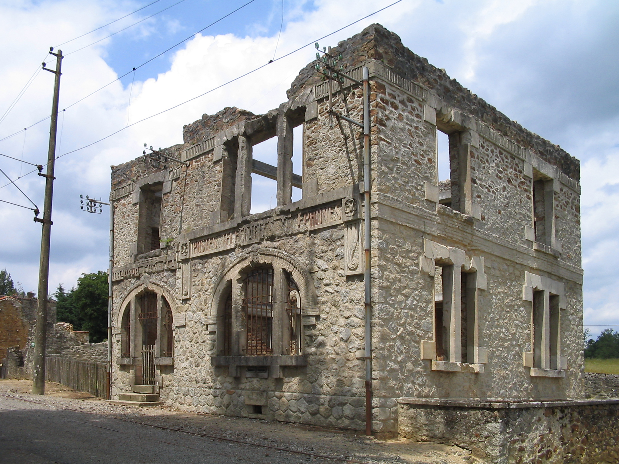 The post office of Oradour-sur-Glane (Haute-Vienne, Limousin, France). This is a photograph which I took during a visit on June 11 2004, exactly 60 years after its destruction by the German army during World War II.